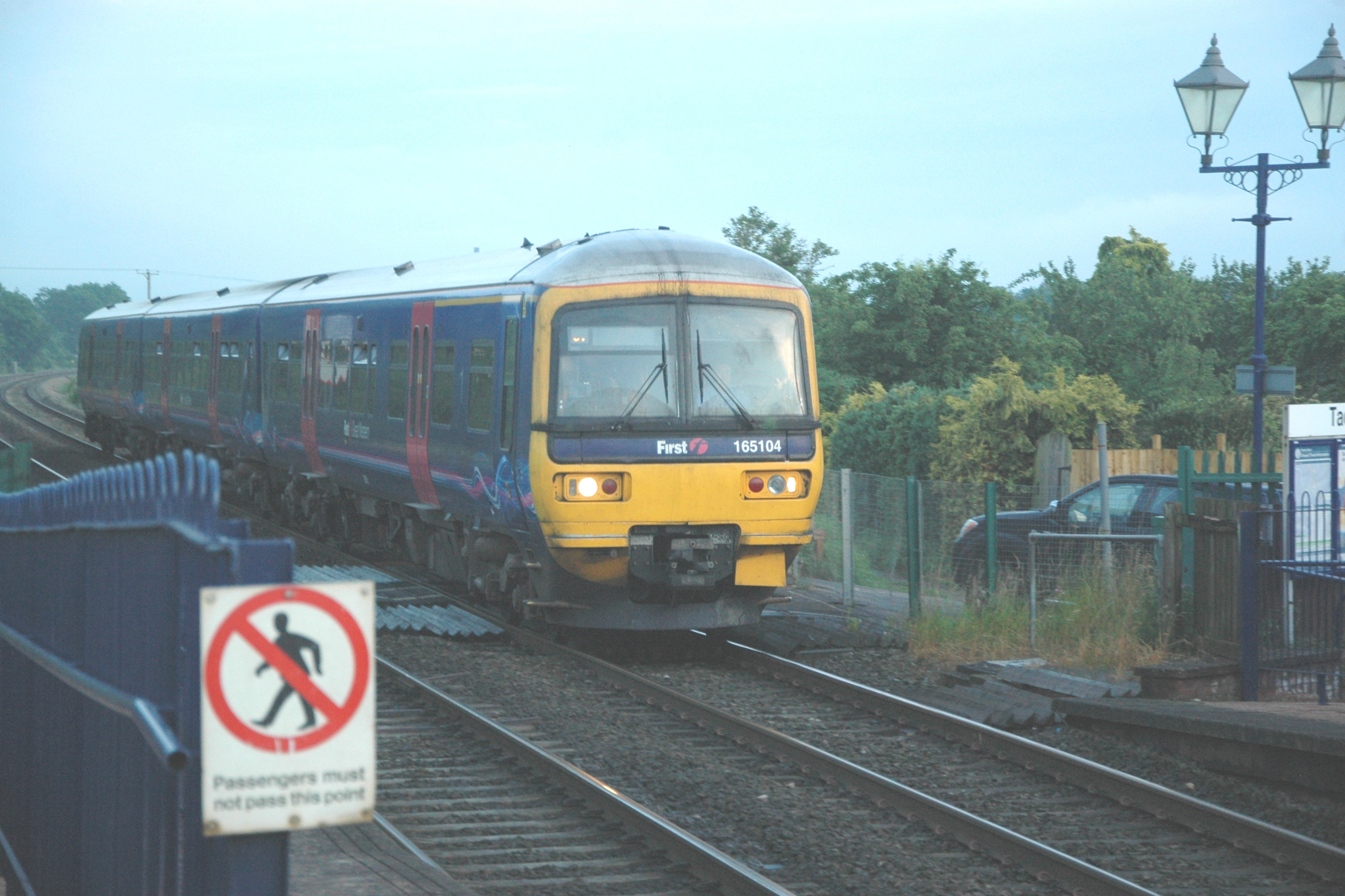 Tackley railway station, Oxfordshire: a "down" First Great Western train to Banbury formed of DMU 165106 crossing the level crossing.